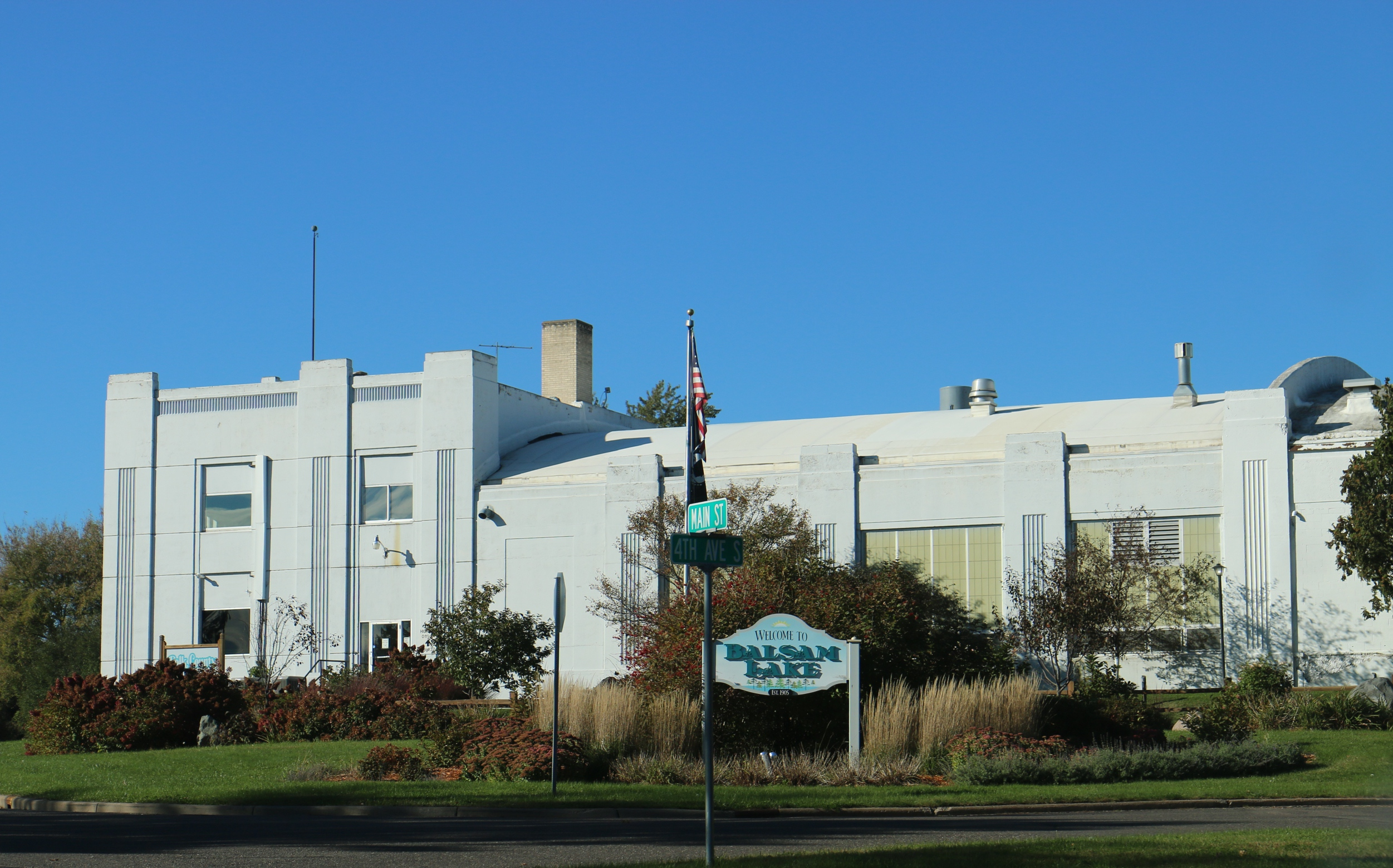 The courthouse for Polk County, Wisconsin in Balsam Lake